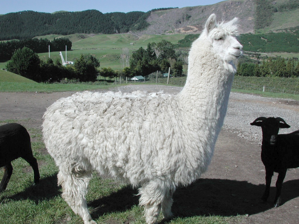 Fluffy white alpaca at Agrodome near Rotorua, New Zealand.